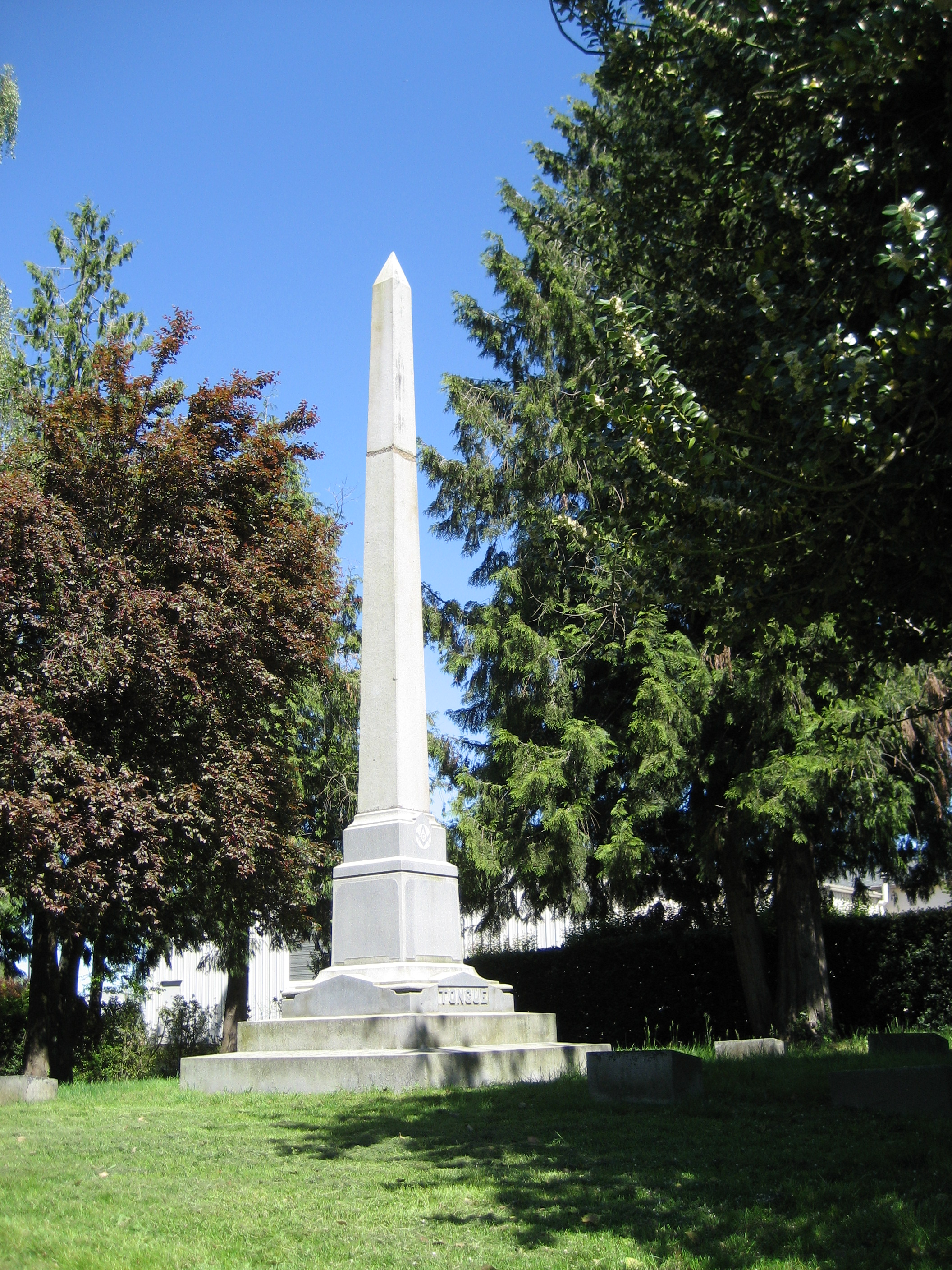 Hillsboro Pioneer Cemetery in Hillsboro, Tongue family memorial.